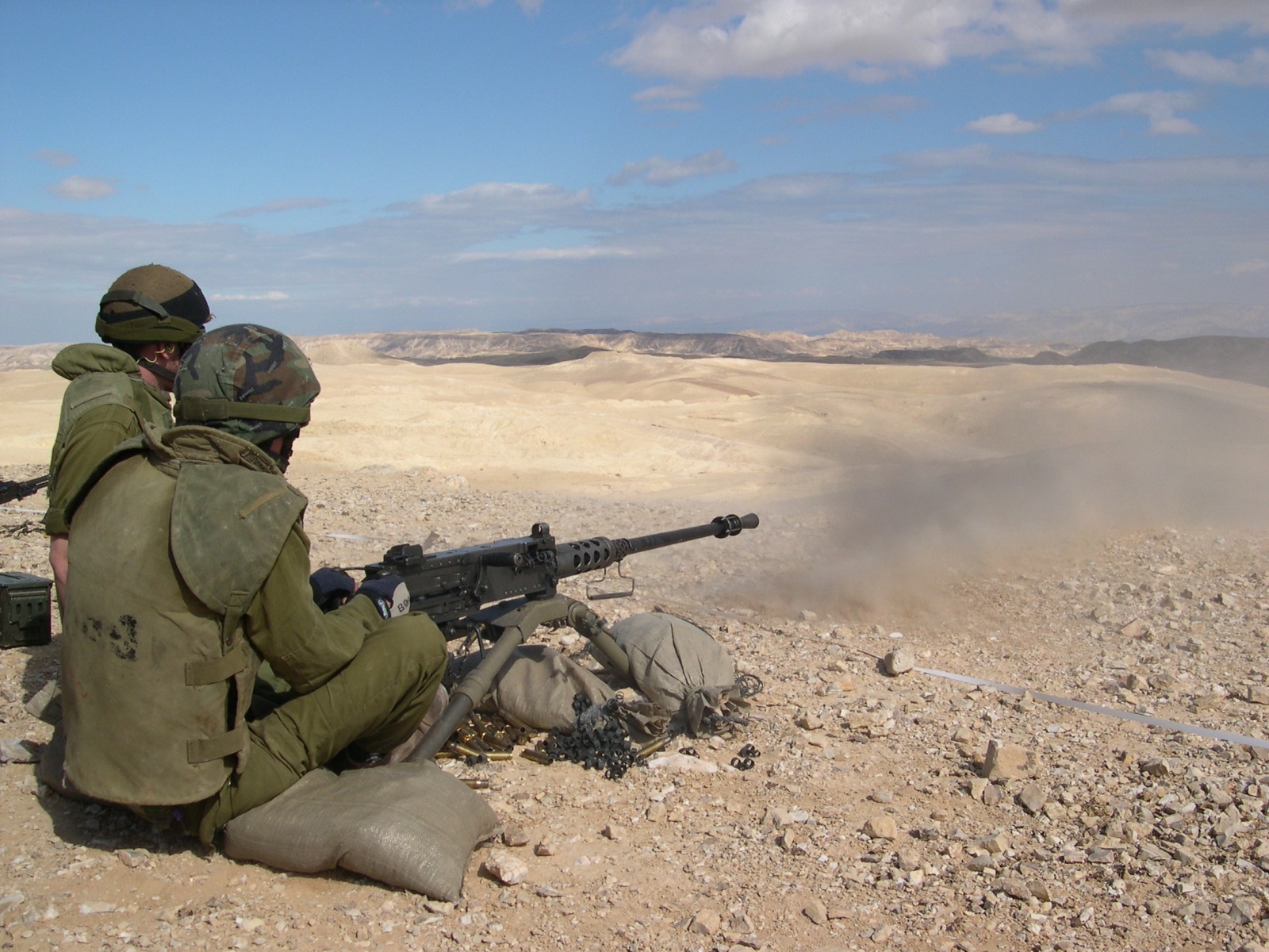 M2 (machine gun) (Browning M2HB, 0.5 cal), in use by the Israel Defense Forces